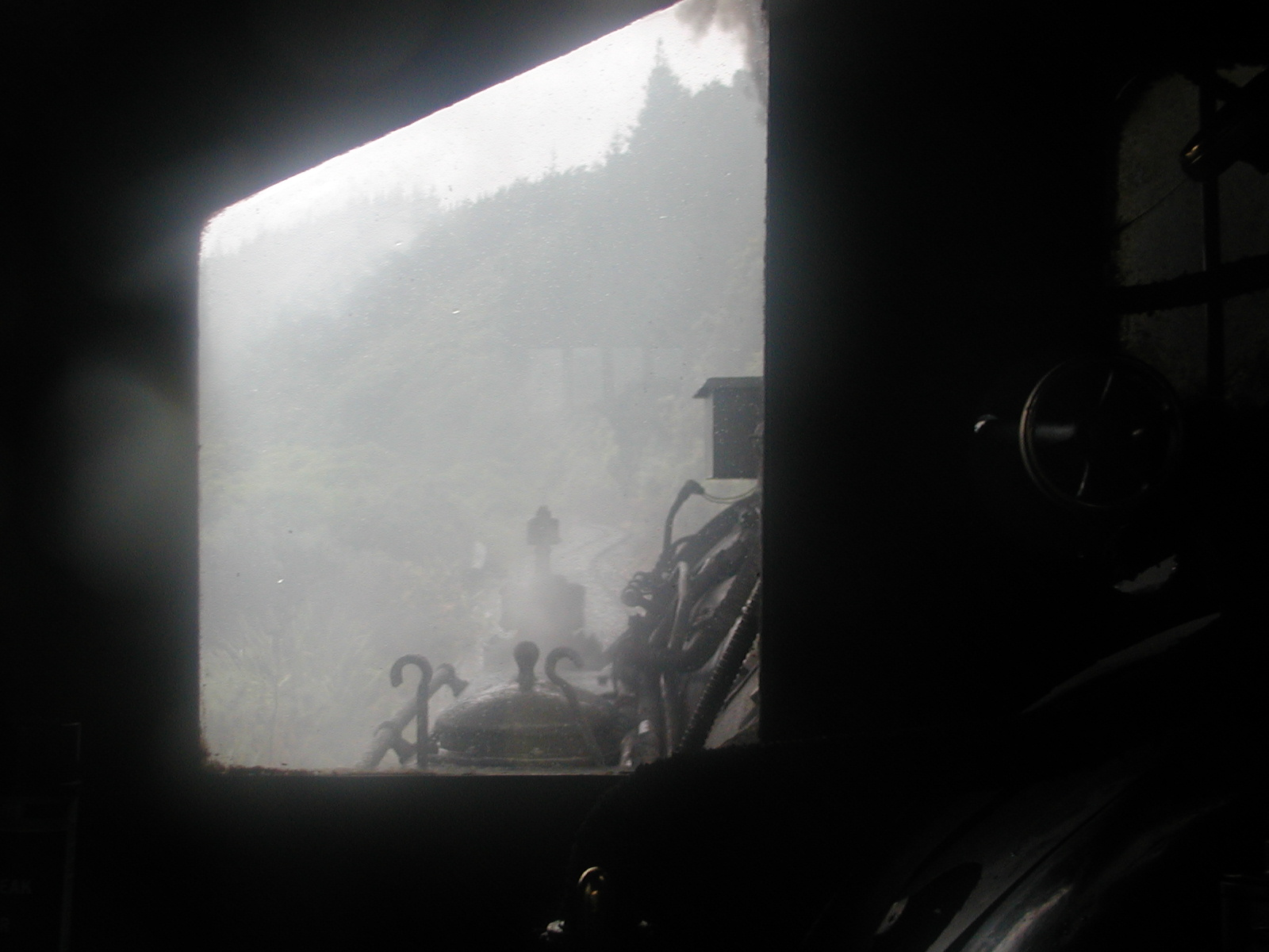 Silver Stream Railway, New Zealand; view from the footplate